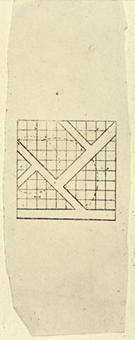 Diagram Counter-composition XIV. 126 mm. Utrecht, Centraal Museum (inv.no. AB4873).